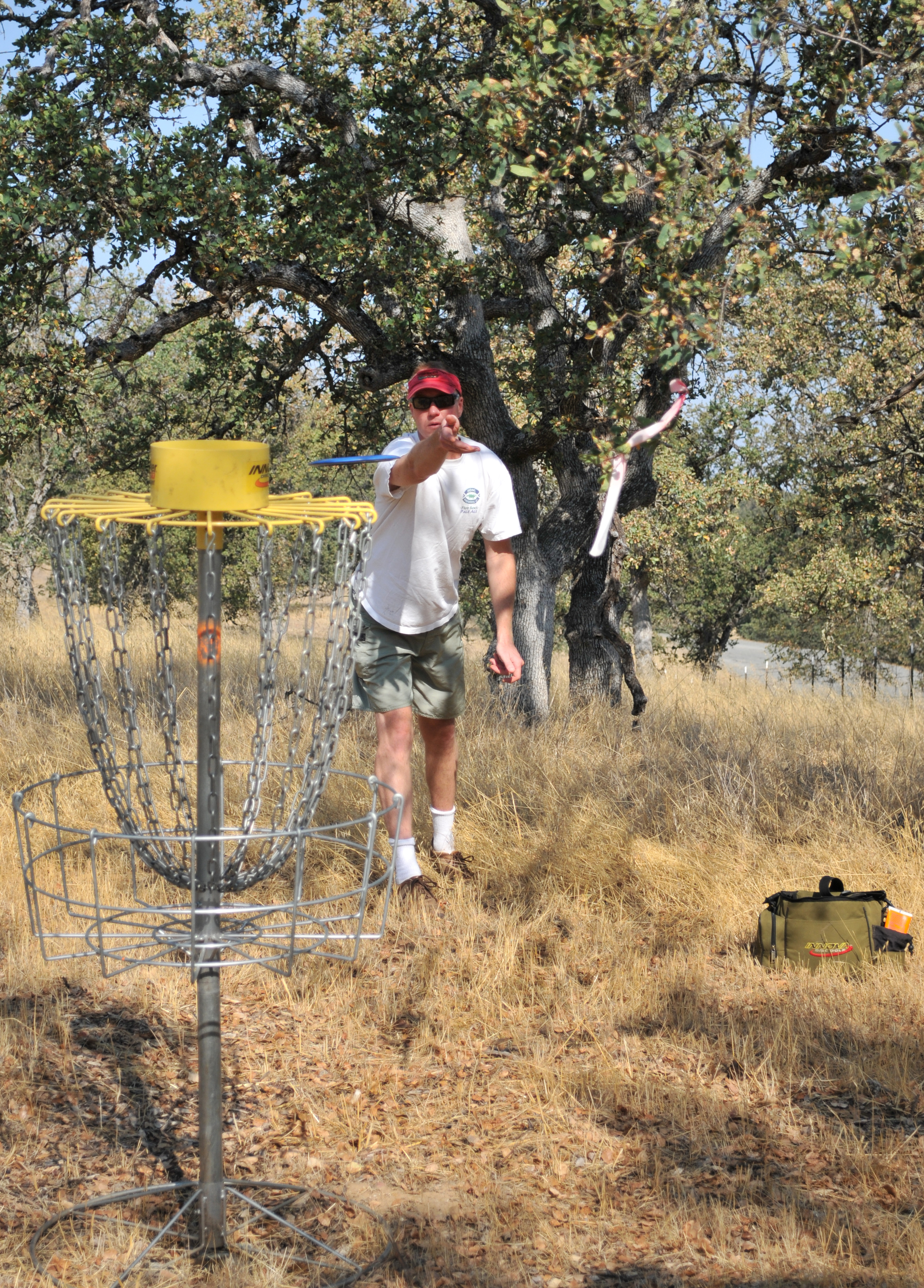 BLACK BUTTE LAKE, Calif. (Sep. 26, 2009) -- Dan Goodrich of Chico, Calif., tosses a 'chip shot' toward a bucket Sept. 26 at the Black Butte Lake disc golf course during National Public Lands Day. Representatives from two Chico-area disc golf clubs volunteered to clean up around the lake and to continue work on the course that he and other Aces team members, working with the Army Corps of Engineers, created and developed. Chico Disc Golf Club approached the Corps in 2006 to use some of its land at Black Butte to construct a new disc golf course. The club started fundraising and seeking sponsors. They did most of the work to construct the course and build the paths, and received some support from the Boy Scouts. Eventually they found a sponsor to help fund bucket purchases, signs and to help pay for course upkeep. The sponsor agreed to fund the 18-hole course in exchange for five years of annul fundraising through tournaments at the course that will benefit the Glenn Community Medical Center in Willows. "It will be kind of a multi-use area, because the paths for the disc golf course will be used by walkers and by anglers for access (to the lake)," Deeming added. "So, we feel like it will be a big benefit to the area, a benefit to Black Butte Lake. It is definitely a testament to grass roots volunteerism.""